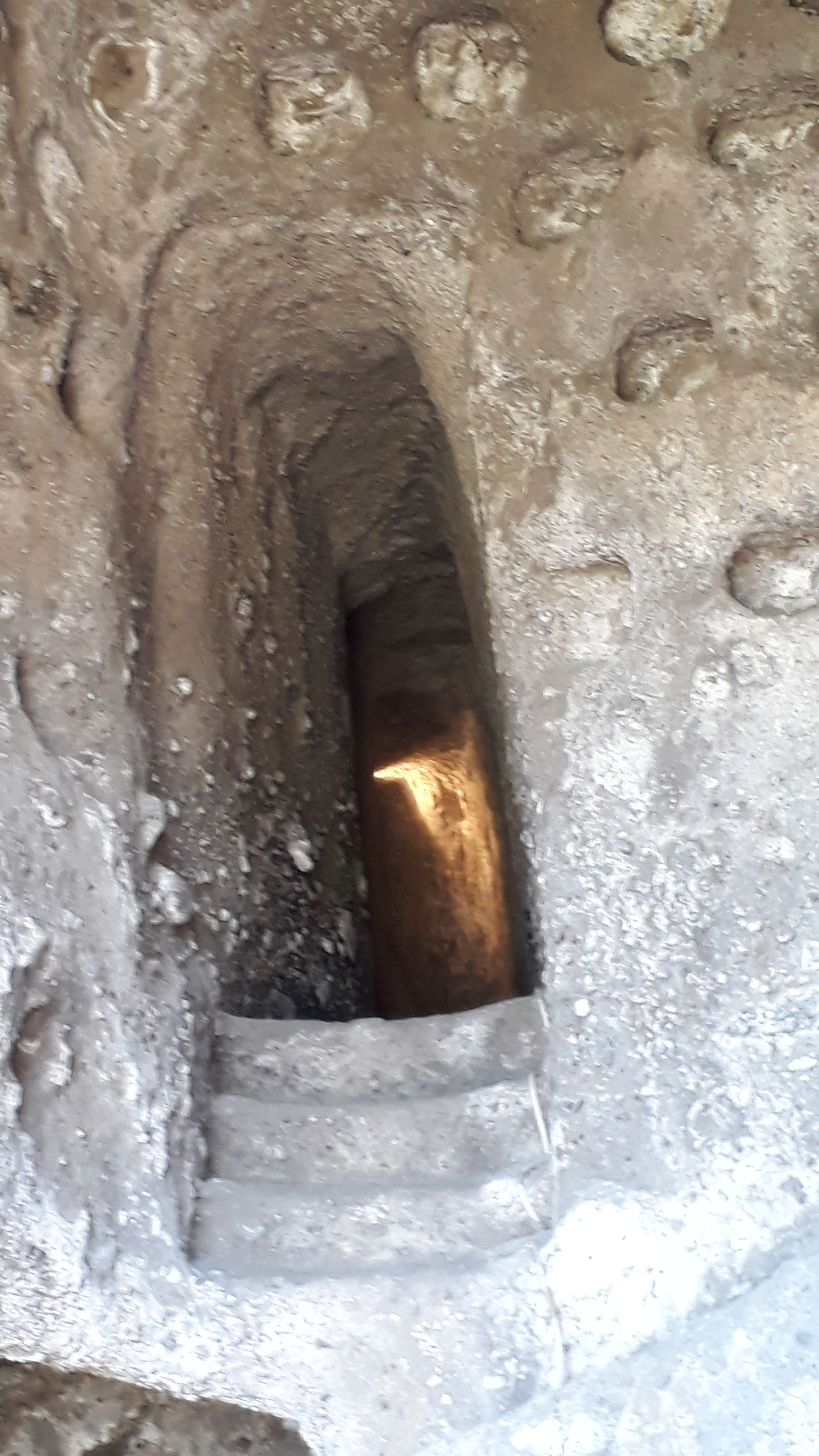 "Underground City" in Orvieto, Italy.